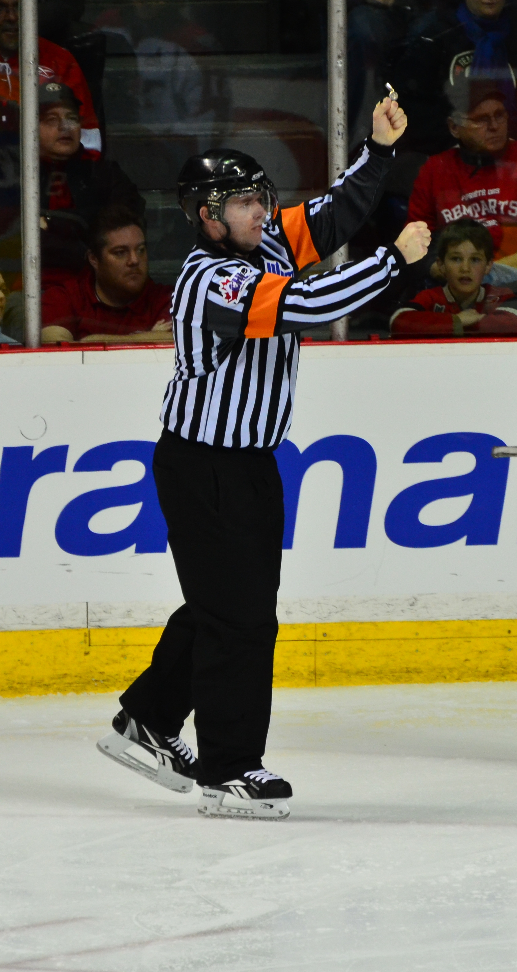 At the second game of the 2012 Québec Remparts-Drummondville Voltigeurs series.